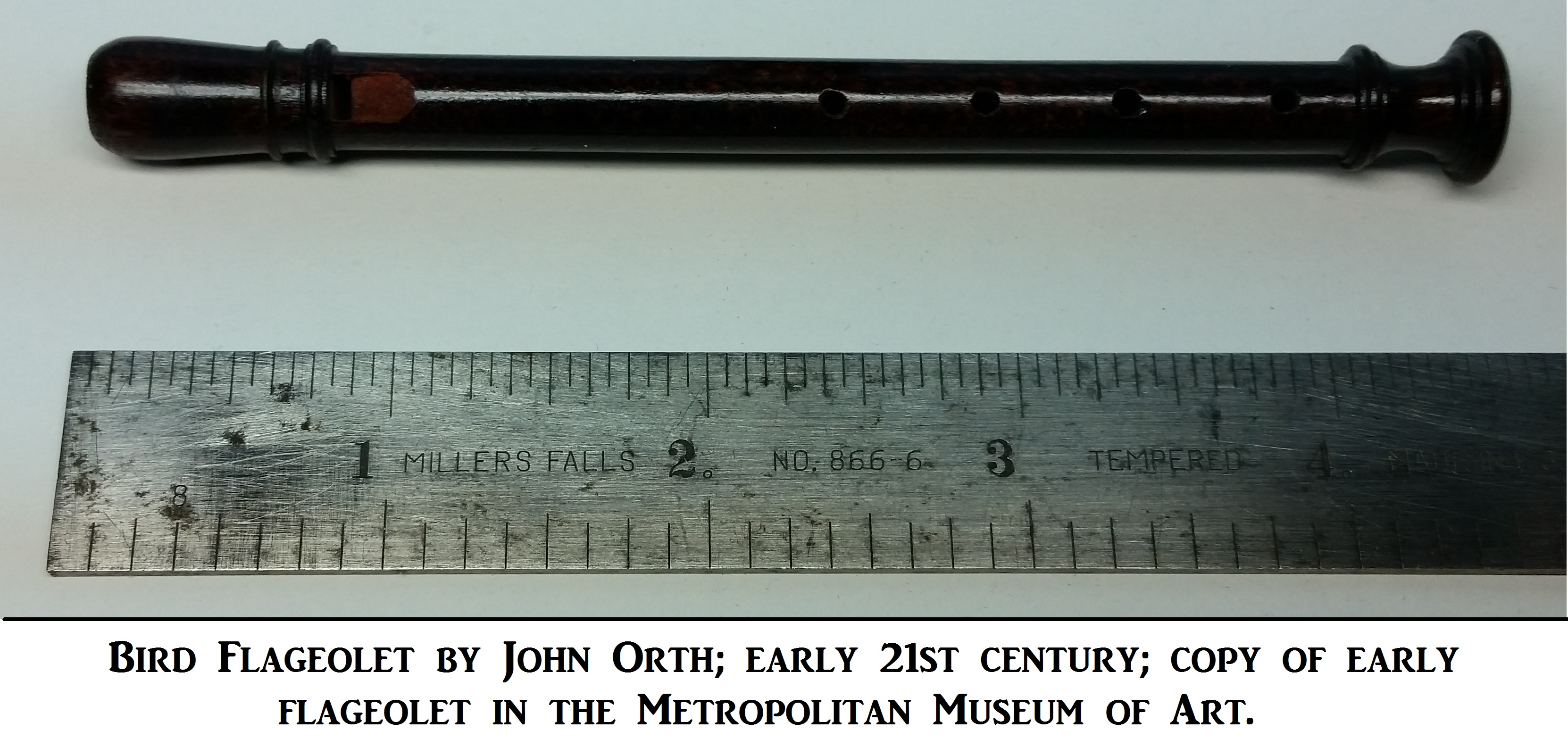 Image shows a bird flageolet, the tiniest size of flageolet made